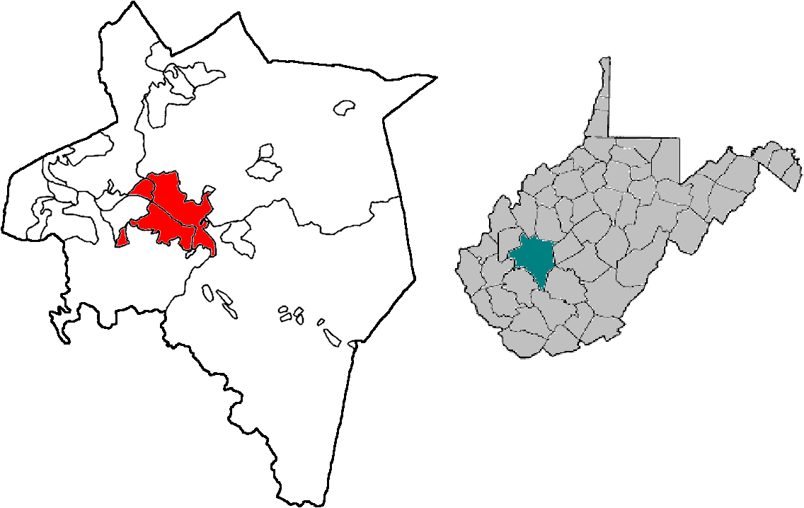 Locator map of Charleston in Kanawha County, West Virginia. Credits Made using US Census Bureau data and WV County Maps- Seth Illys.